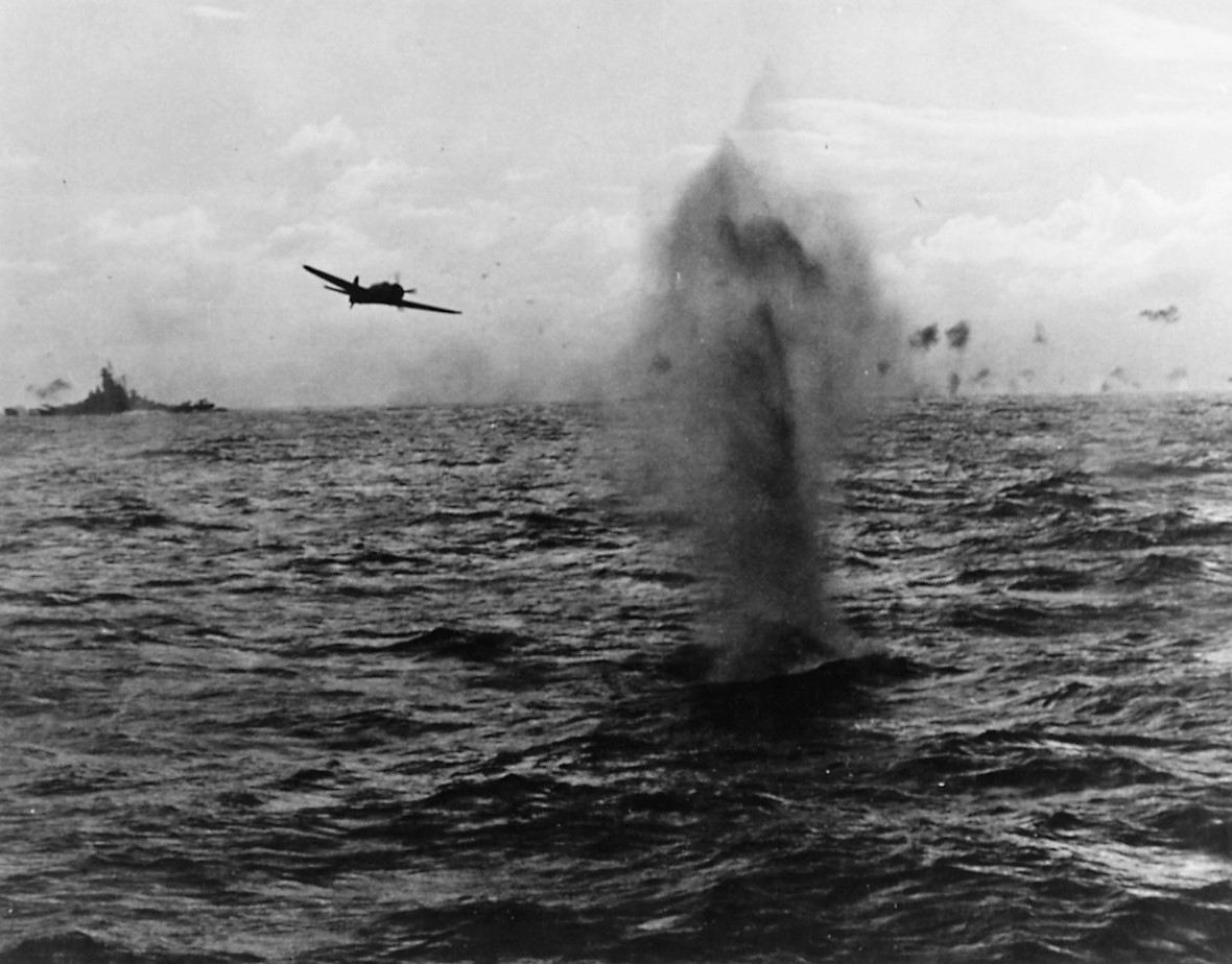 A Japanese Navy B6N ("Jill") torpedo bomber plane passes the starboard quarter of the USS ESSEX (CV-9), after dropping its torpedo, 14 October 1944. Note: battleship in the left distance, and anti-aircraft shell splash in front of the plane.